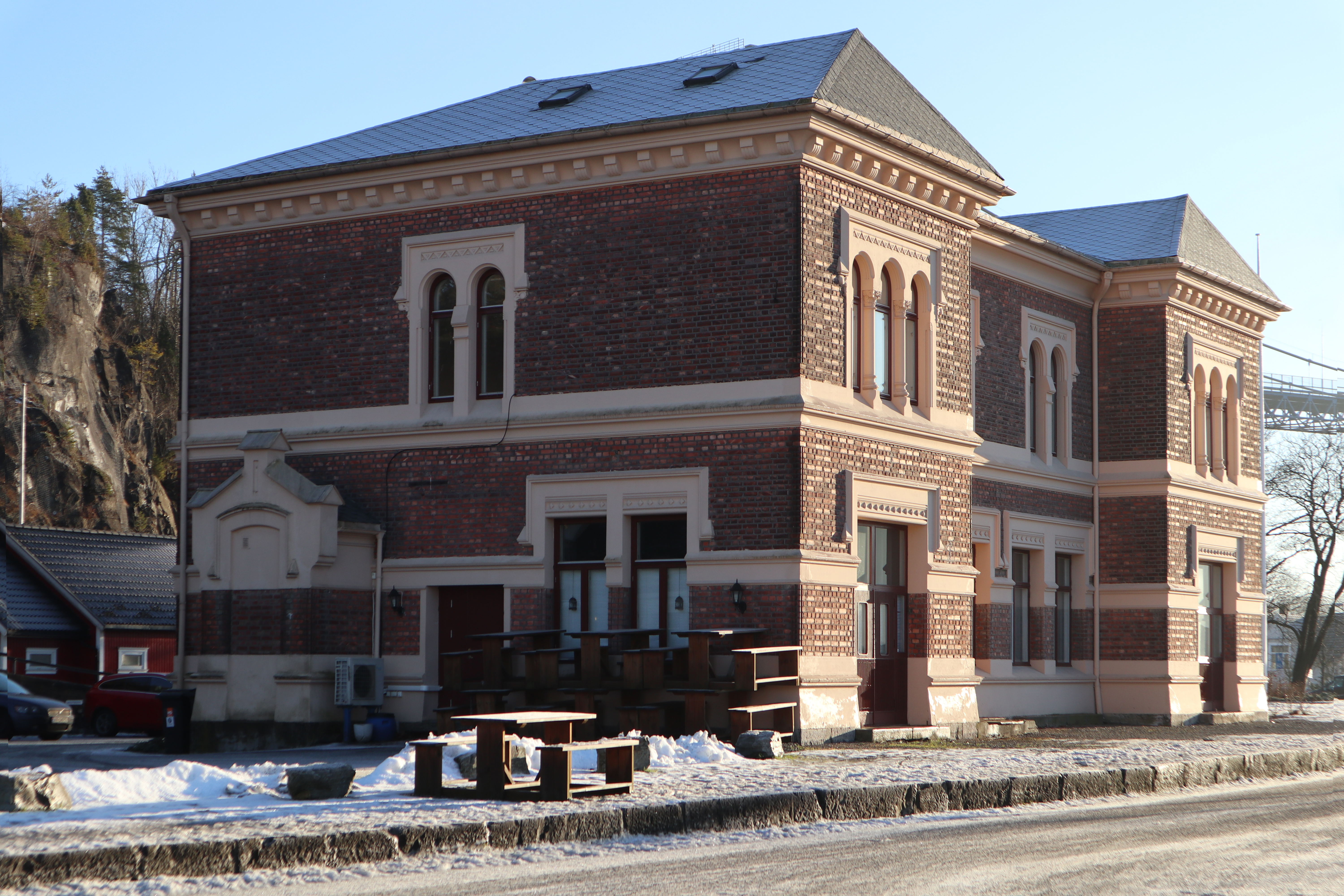 Railway Station Brevik 1895